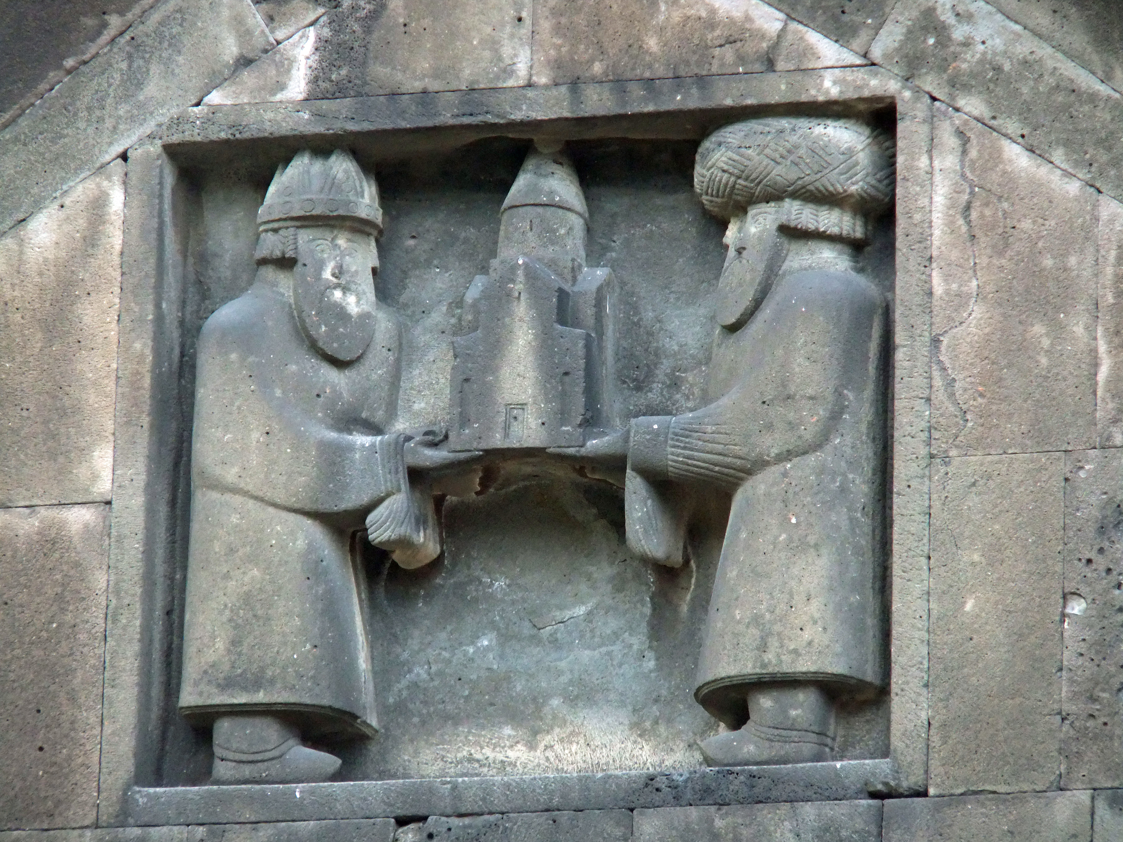 Armenia - Day 3 - 20 September 2010. 13th Century Monastery